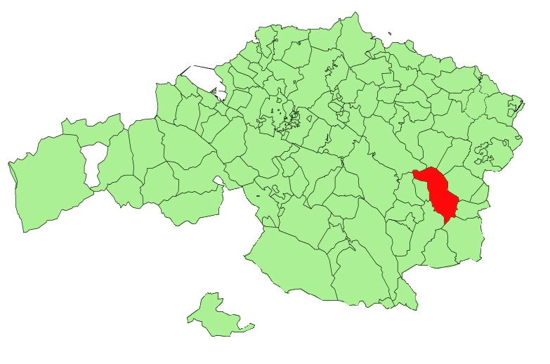 Berriz municipality in the province of Biscay